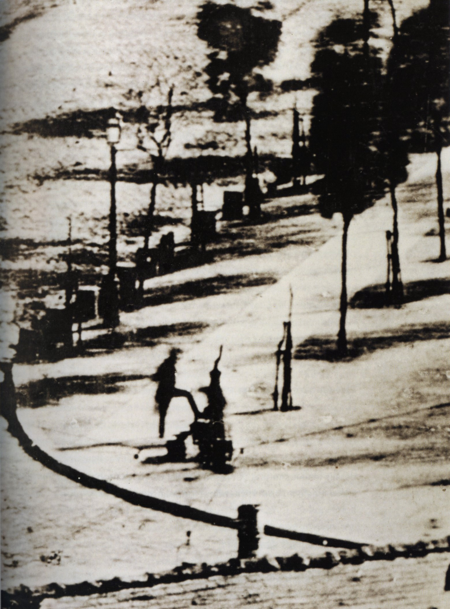 Detail of Boulevard du Temple by Louis-Jacques Mandé Daguerre (1787 - 1851): a man who stood still getting his boots polished long enough to show.